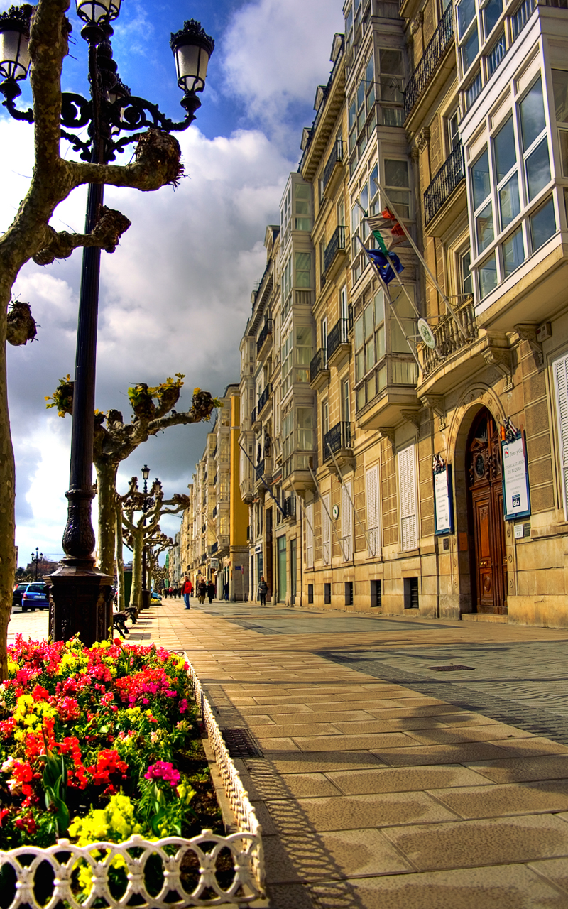 This is one of the most beautiful streets of Santander the Pereda's Aveniu. (Cantabria, Spain).